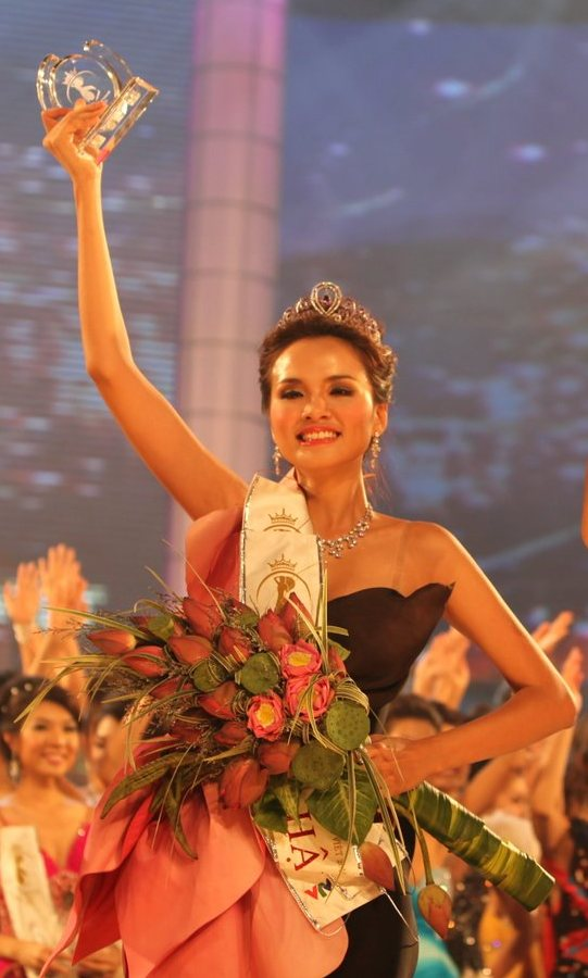 Miss Vietnam World 2010 Luu Thi Diem Huong.